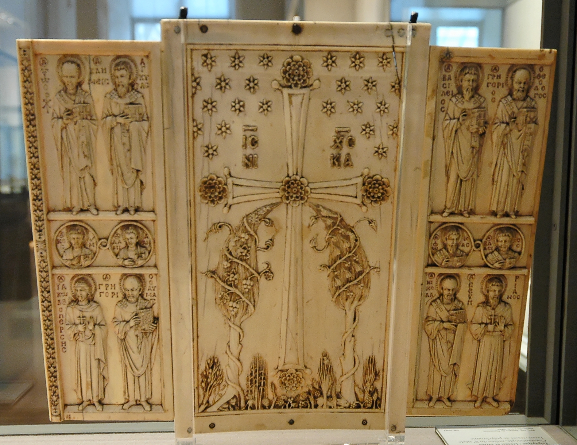 Deesis and saints, Harbaville Triptych, middle of the 10th century, ivory. Alternate views: view of the recto, detail of the right panel